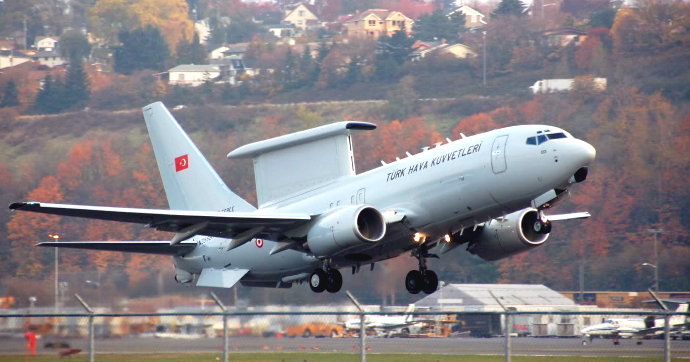 Boeing 737 AEW&C MESA Peace Eagle in Seattle, September 6, 2007.